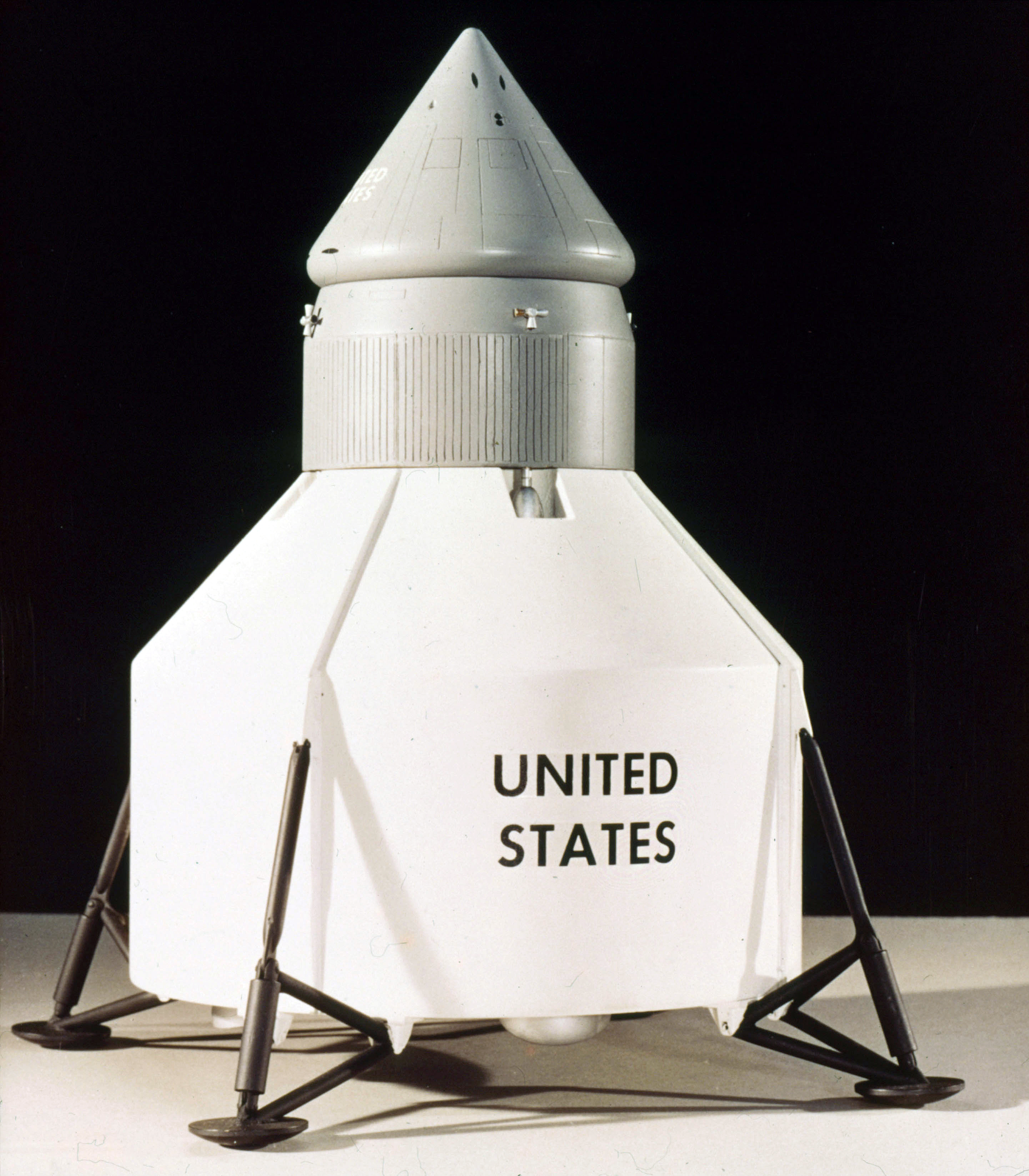 From a series of NASA presentation slides, circa 1962.